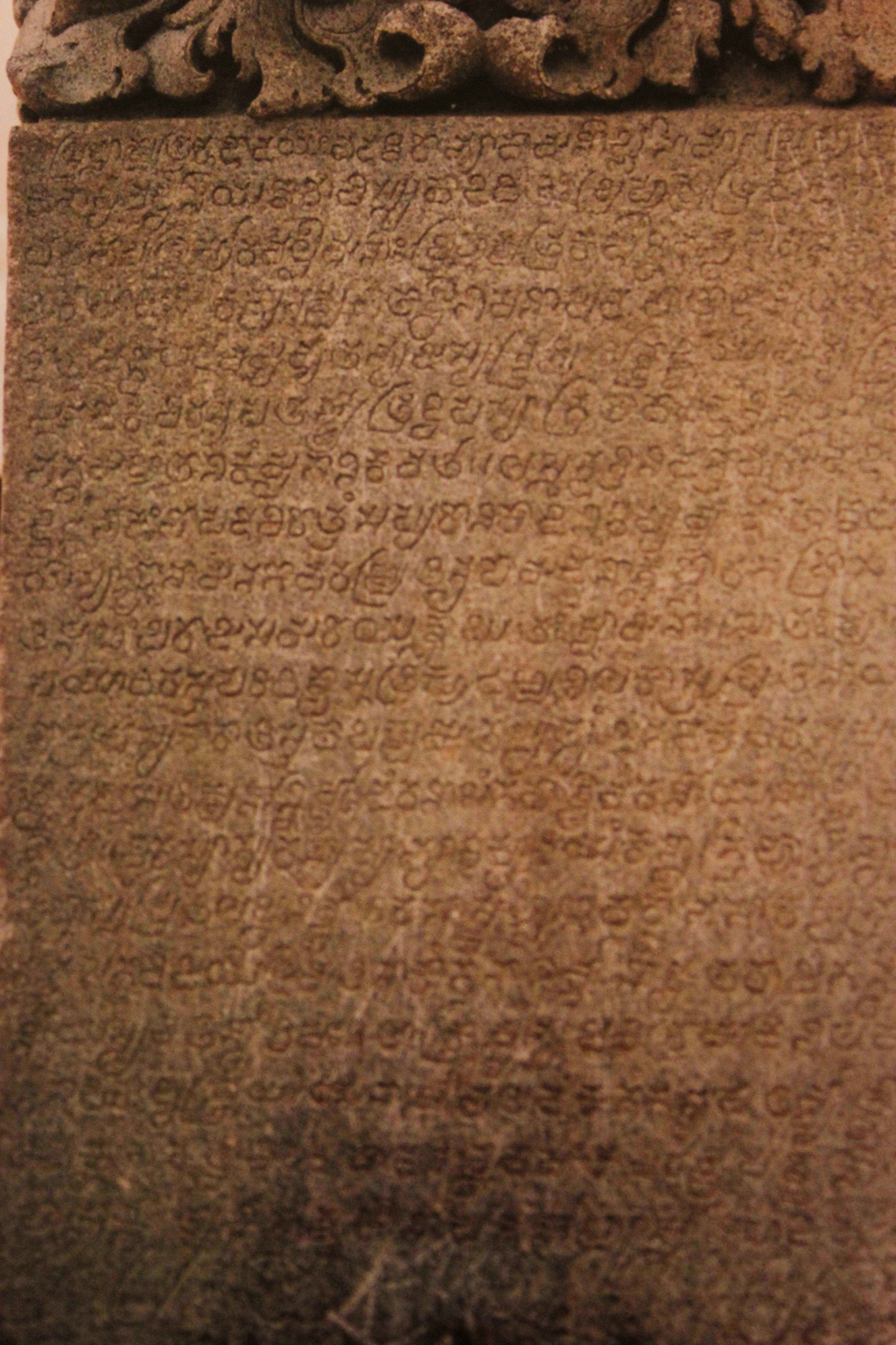 This photograph was taken by me at Shravanabelagola in Hassan district of Karnataka state, India. The inscription dated 983 CE gives an account of Chamundaray's involvement in the erection of the pillar. Only the inscription on the north face of the base is available today.Source:Benjamin Lewis Rice, Epigraphia Carnatica: Rev. ed, Volume 2-Inscriptions at Shravana Belagola, p.2 introduction, inscription no.109, List of inscriptions in chronological order, list-i, 1889, Government of Mysore Central Press, Bangalore, ISBN 3 2044 010 221 265)